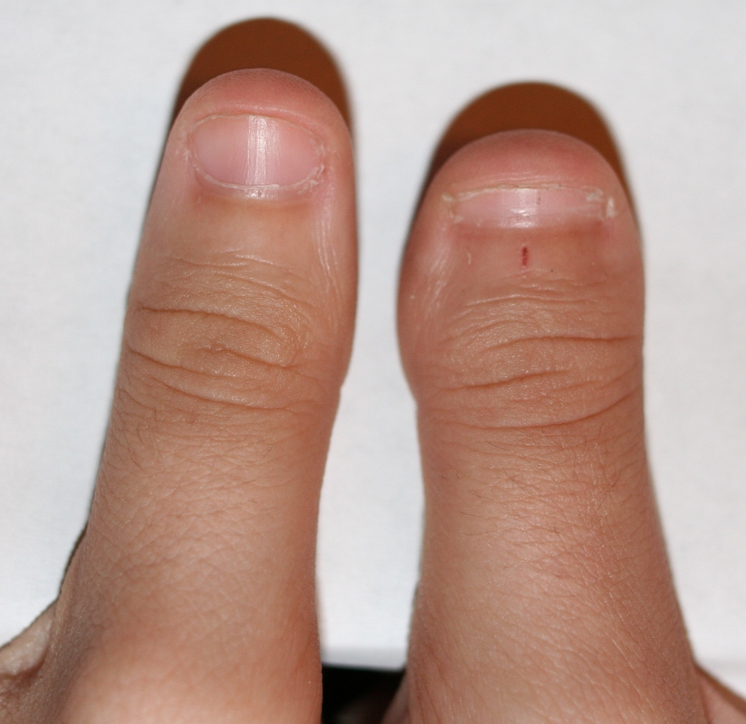 Clubbed thumb pictured with normal thumb from same subject. This is an example of asymmetrical genetic clubbing of the thumb.